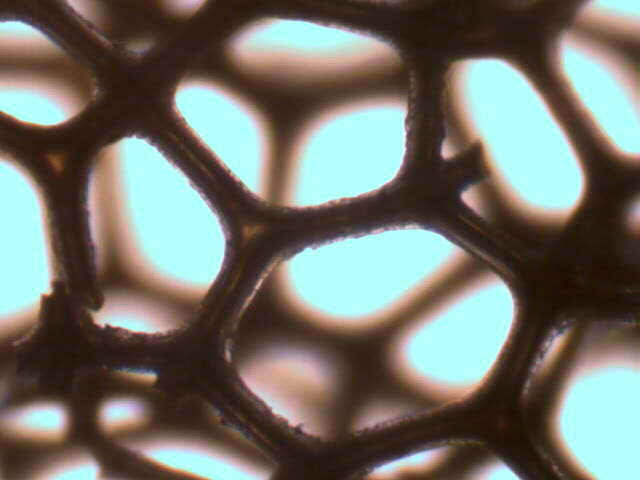 Optical micrograph revealing the structure of a polymeric open cell foam. Tortuosity of this foam can be determined using air-coupled ultrasonic techniques